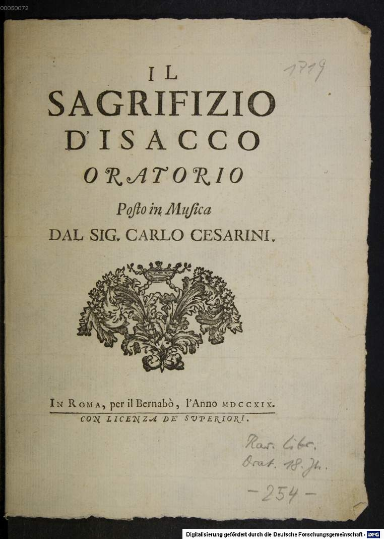 Carlo Francesco Cesarini (1666–1741): Il sagrifizio disacco (oratorium, cover)